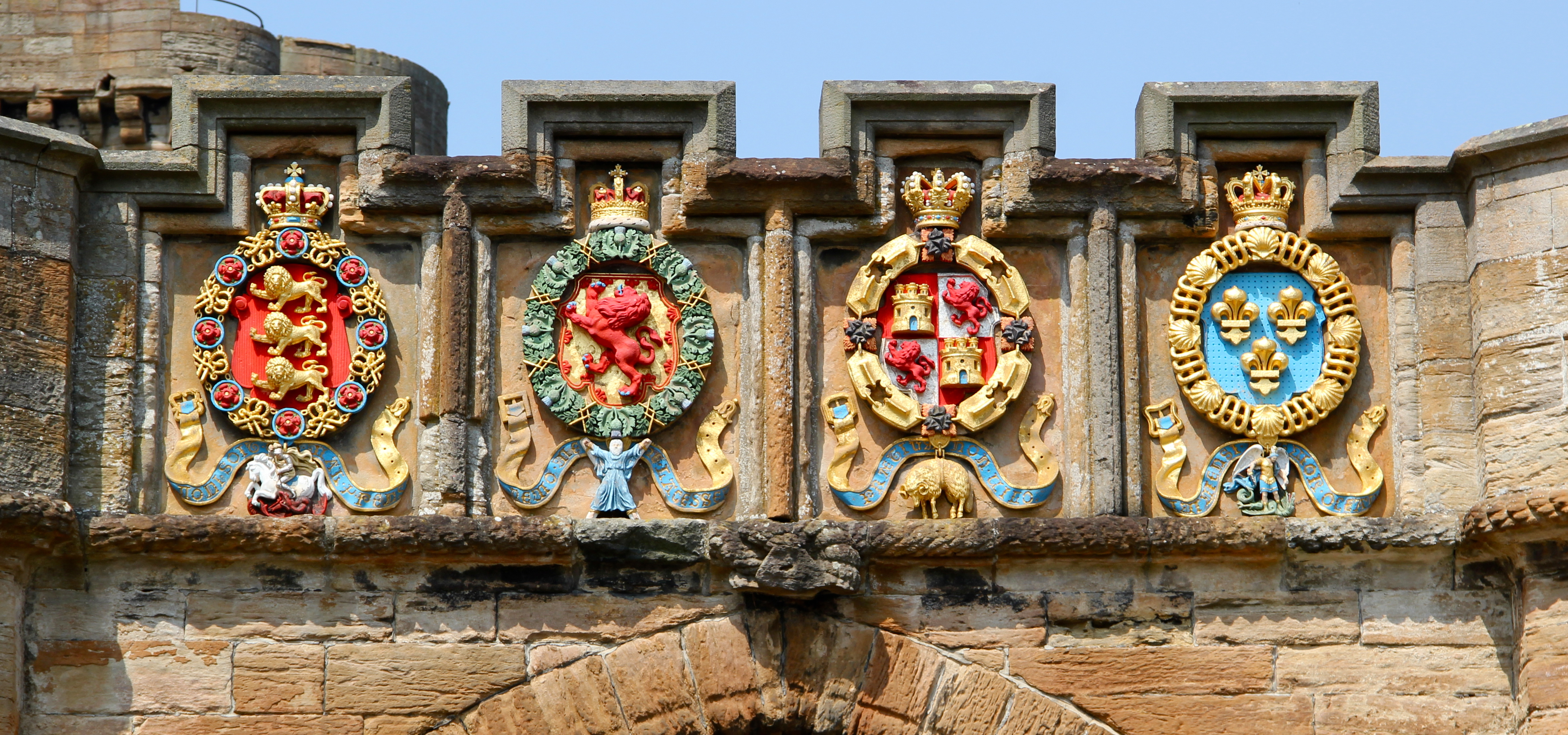 The fore entrance to Linlithgow Palace, built by King James V around 1533 gave access to the outer enclosure surrounding the palace. The four European orders of chivalry, to which James V belonged are engraved above the arch (from left to right) "The Order of the Garter", "The Order of Thistle", "The Order of the Golden Fleece" and "The Order of St. Michael". The stonework has been completely renewed in 1845.